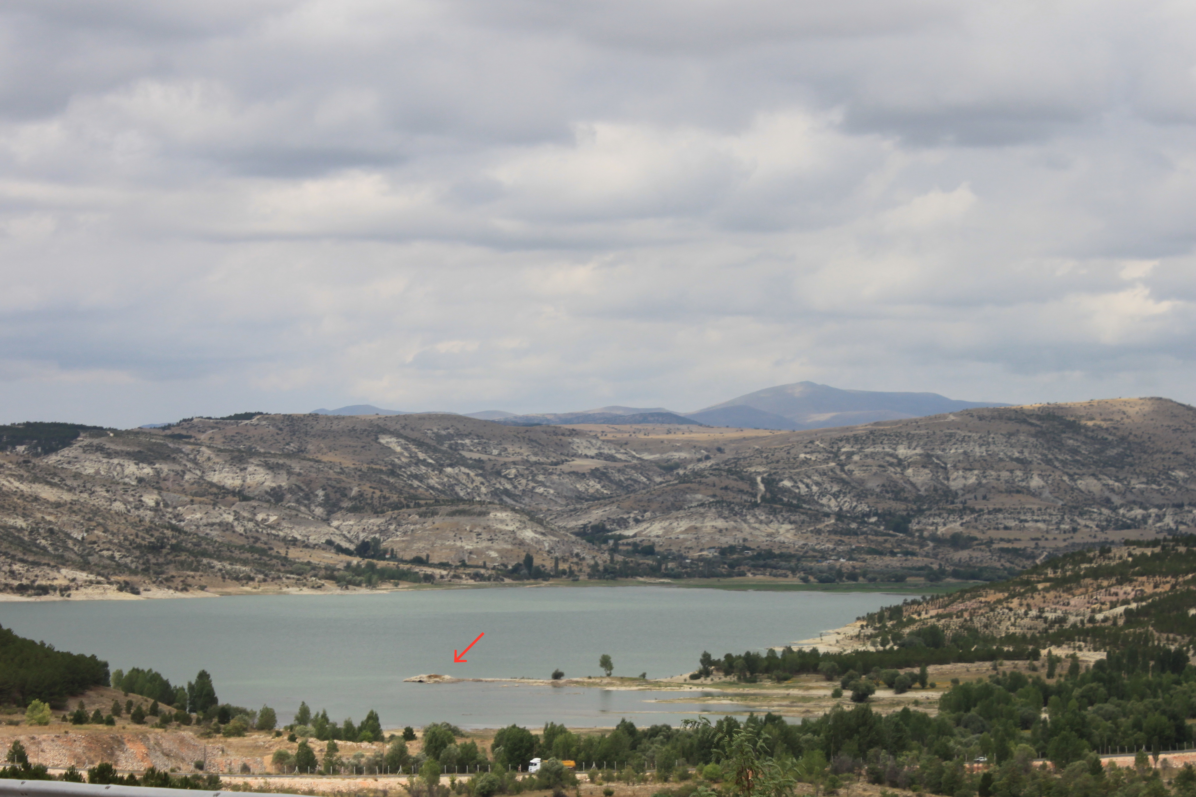 Lake, reservoir, ruins